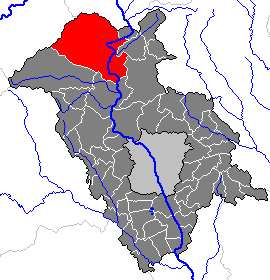 This map shows the area of the Gemeinde (municipality) Frohnleiten in the Bezirk (district) Graz-Umgebung, Styria, Austria.